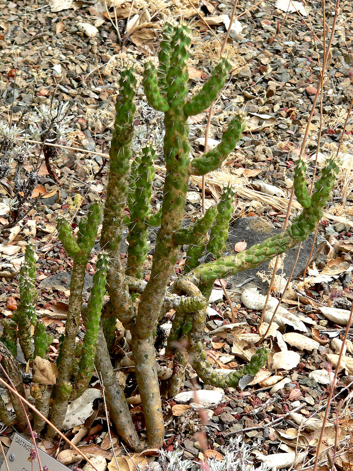 Photo of Cylindropuntia californica at the University of California Botanical Garden